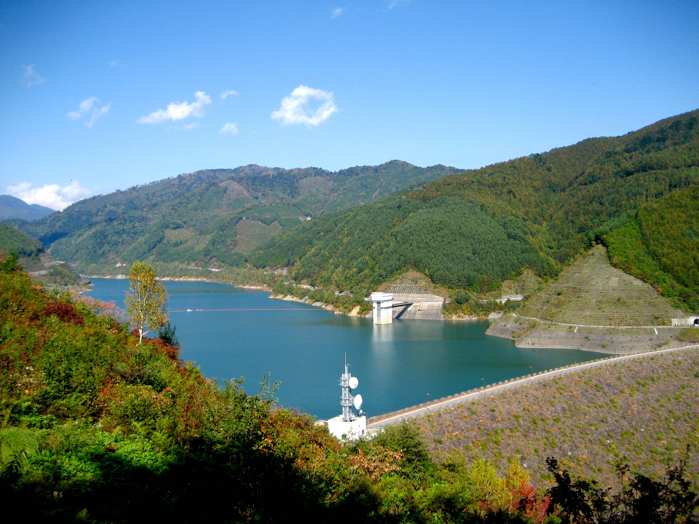 Misogawa Dam (味噌川ダム) in Kiso village, Nagano prefecture, Japan.